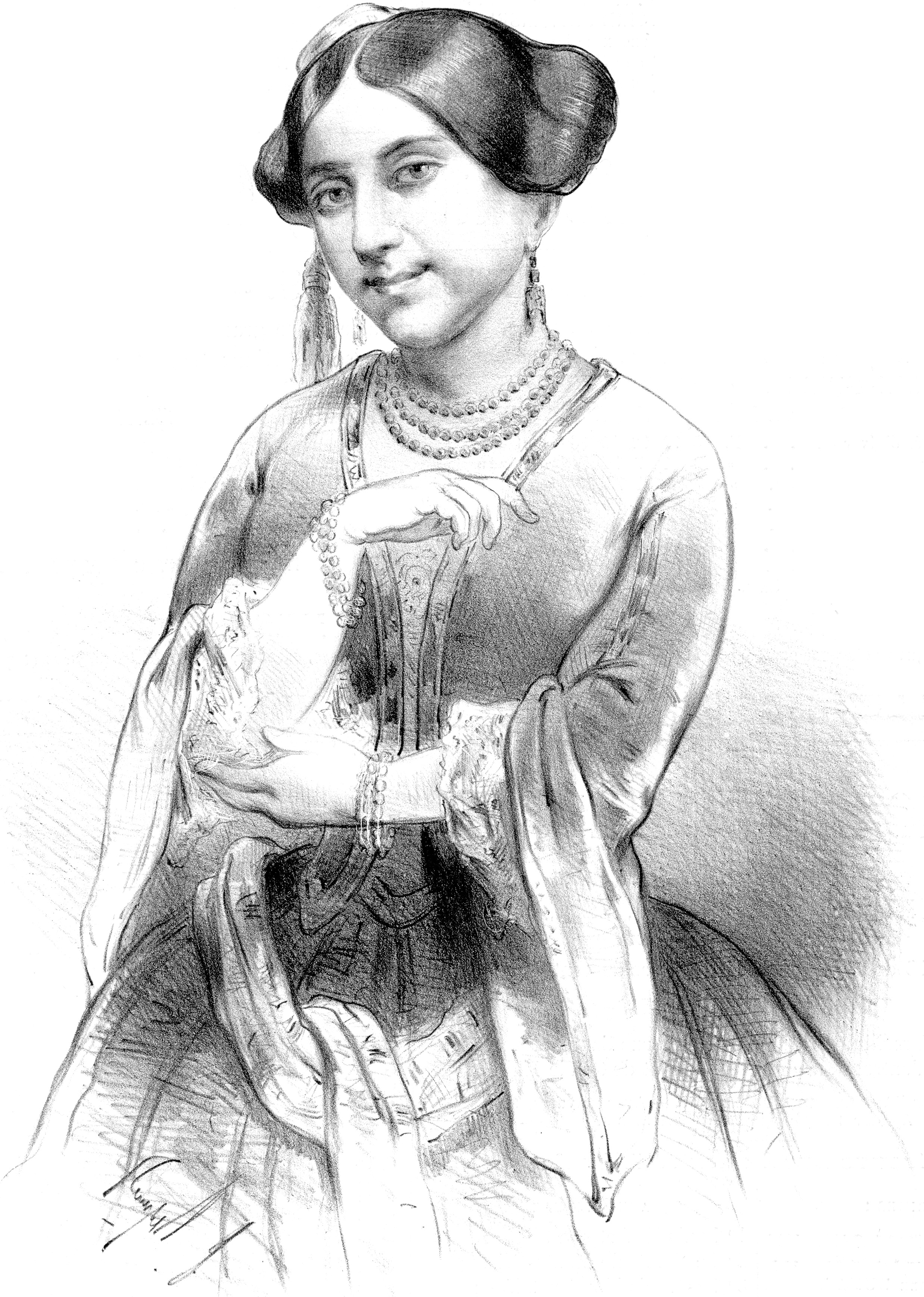 French soprano Anne-Benoîte-Louise Lavoye (1823-1897) in the title role of Auber's Haydée.